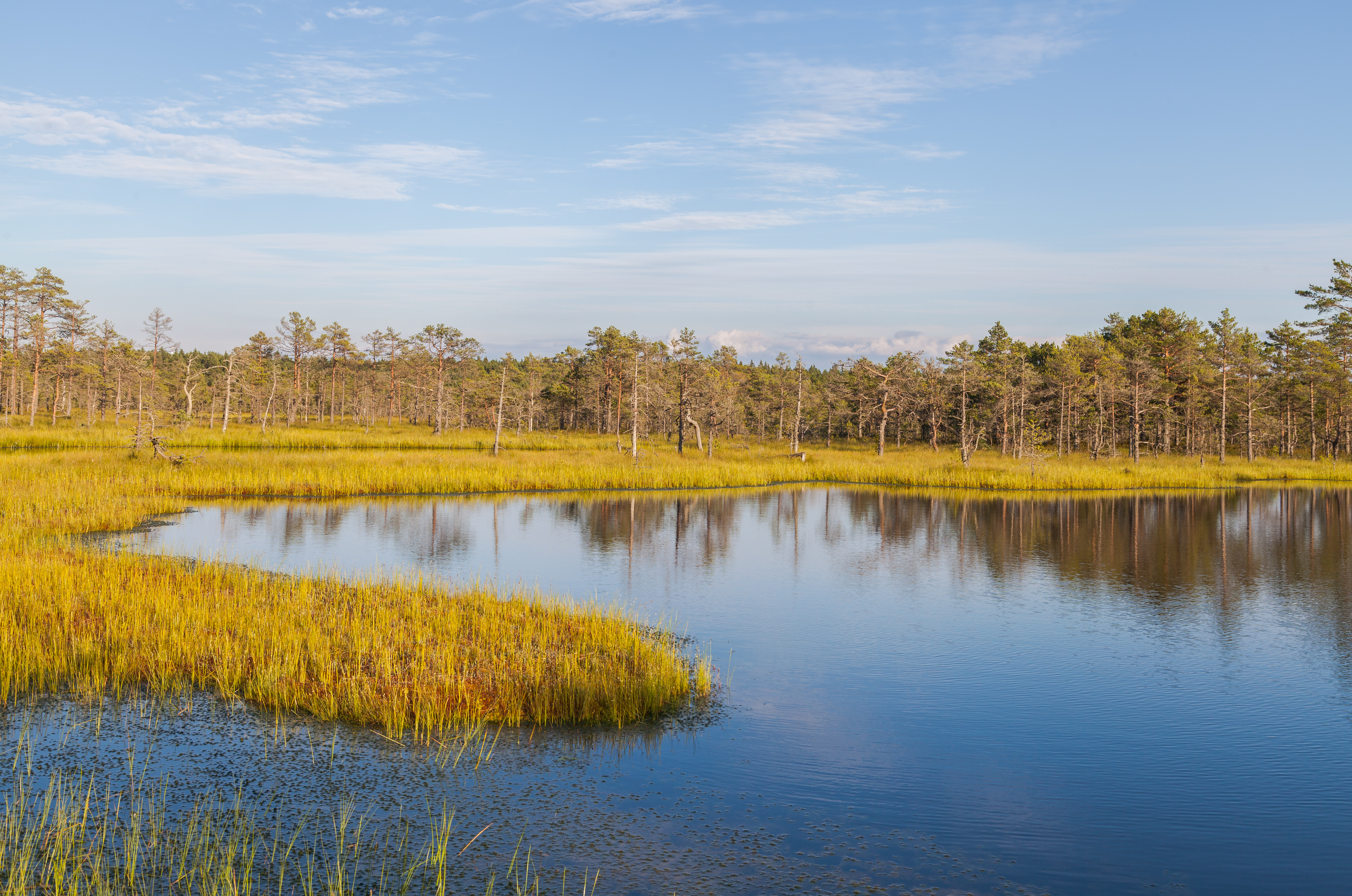 Viru bog, Lahemaa National Park, Estonia